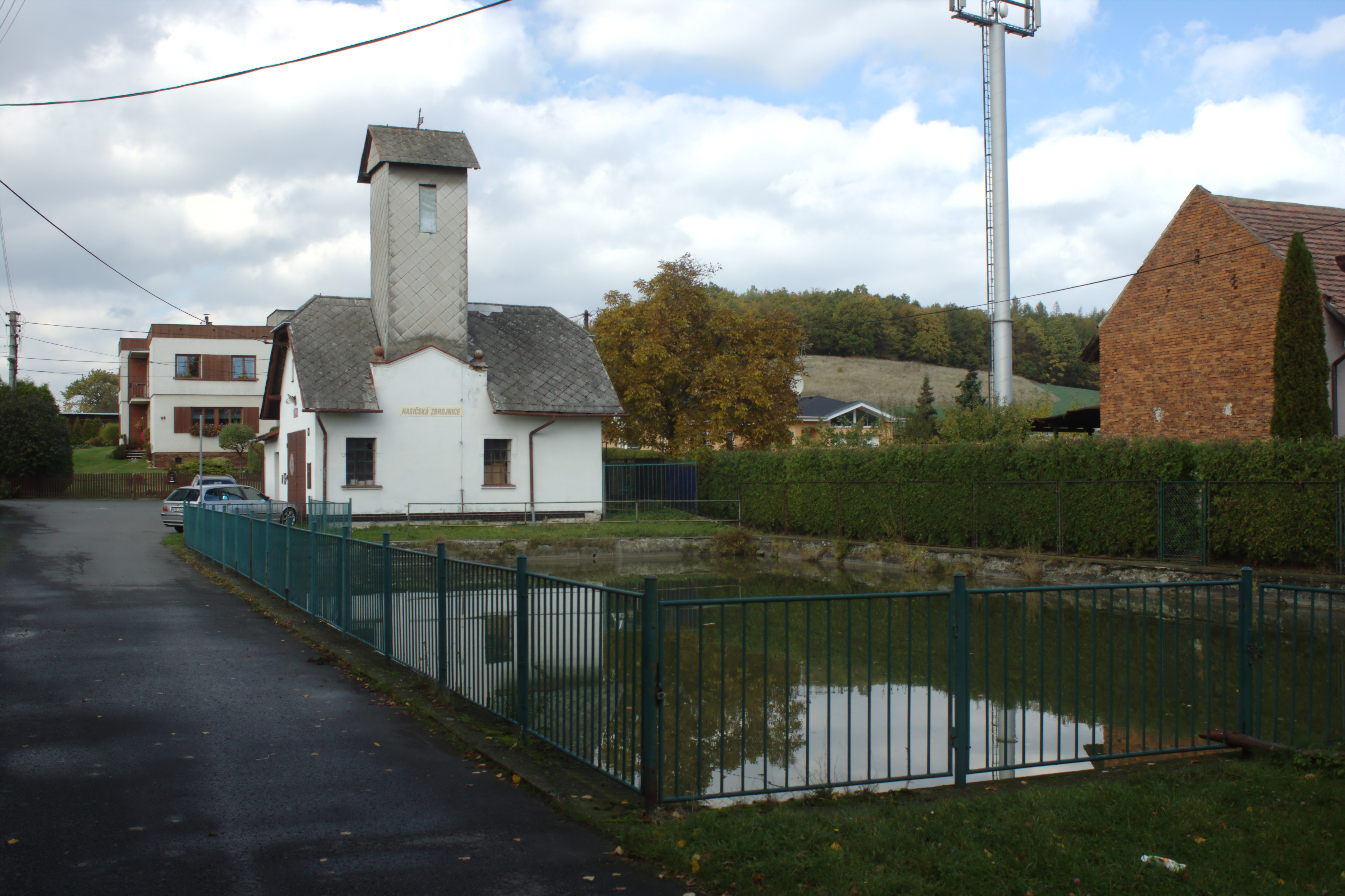 A reservoir in front of a fire station building in Josefovice, Moravian-Silesian Region, CZ